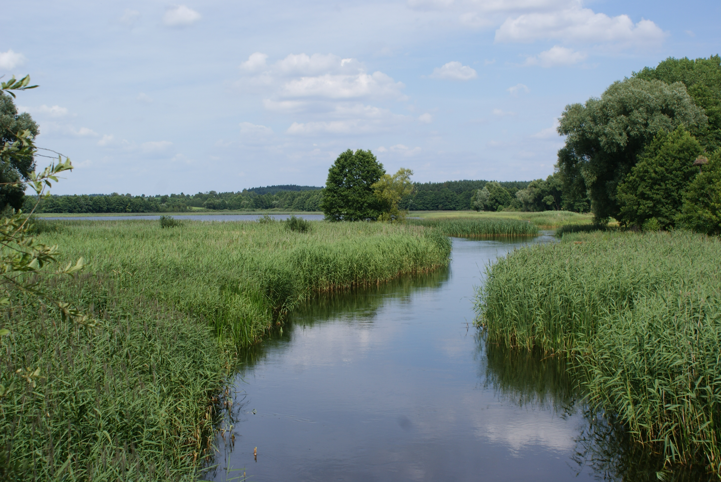 Ełk River near Miluki village